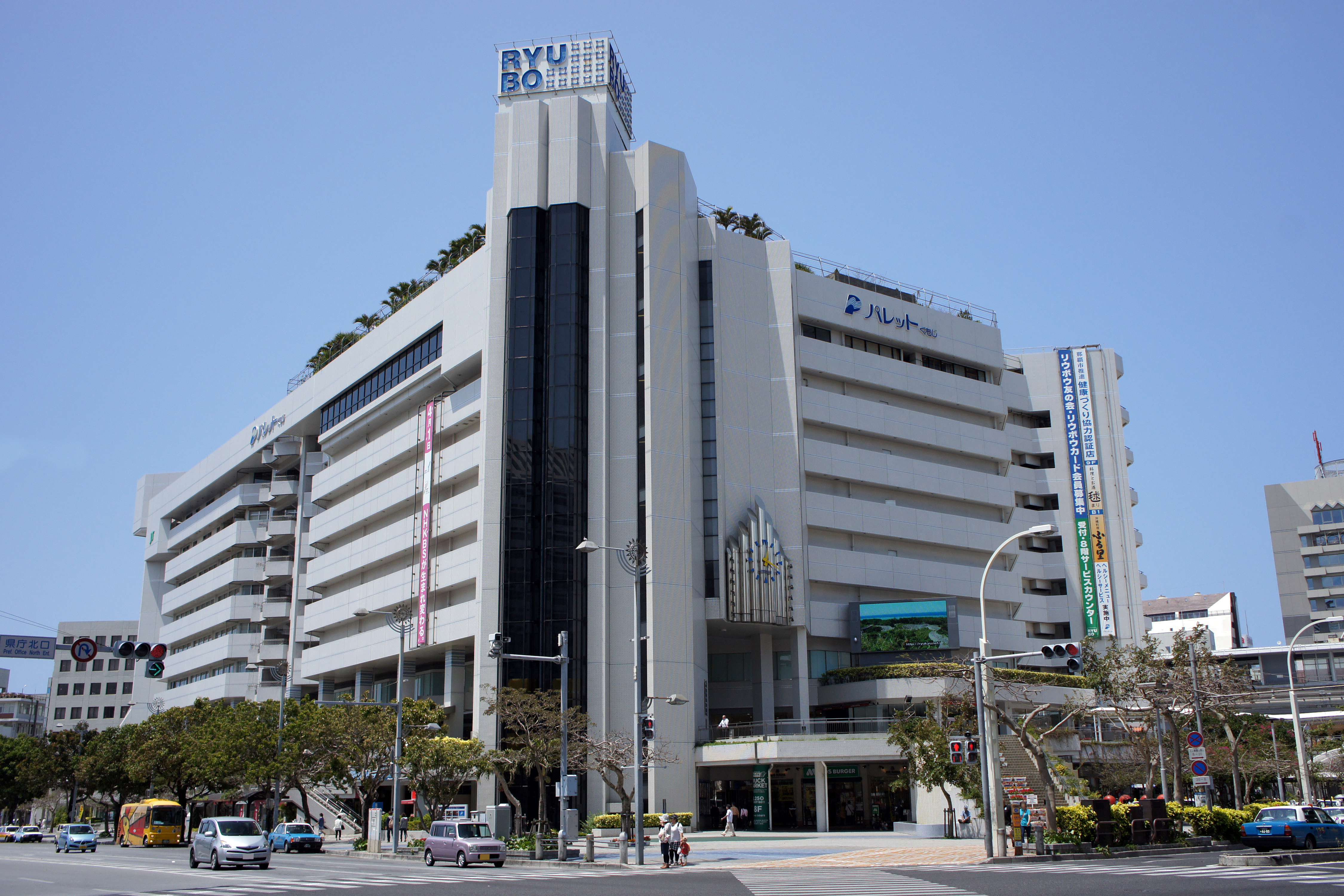 Pallet Kumoji in Naha, Okinawa prefecture, Japan